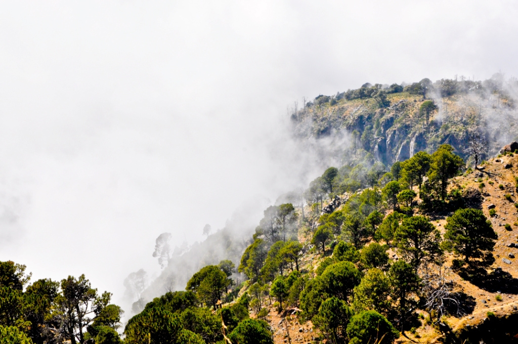 On the slopes of Tacana Volcano.